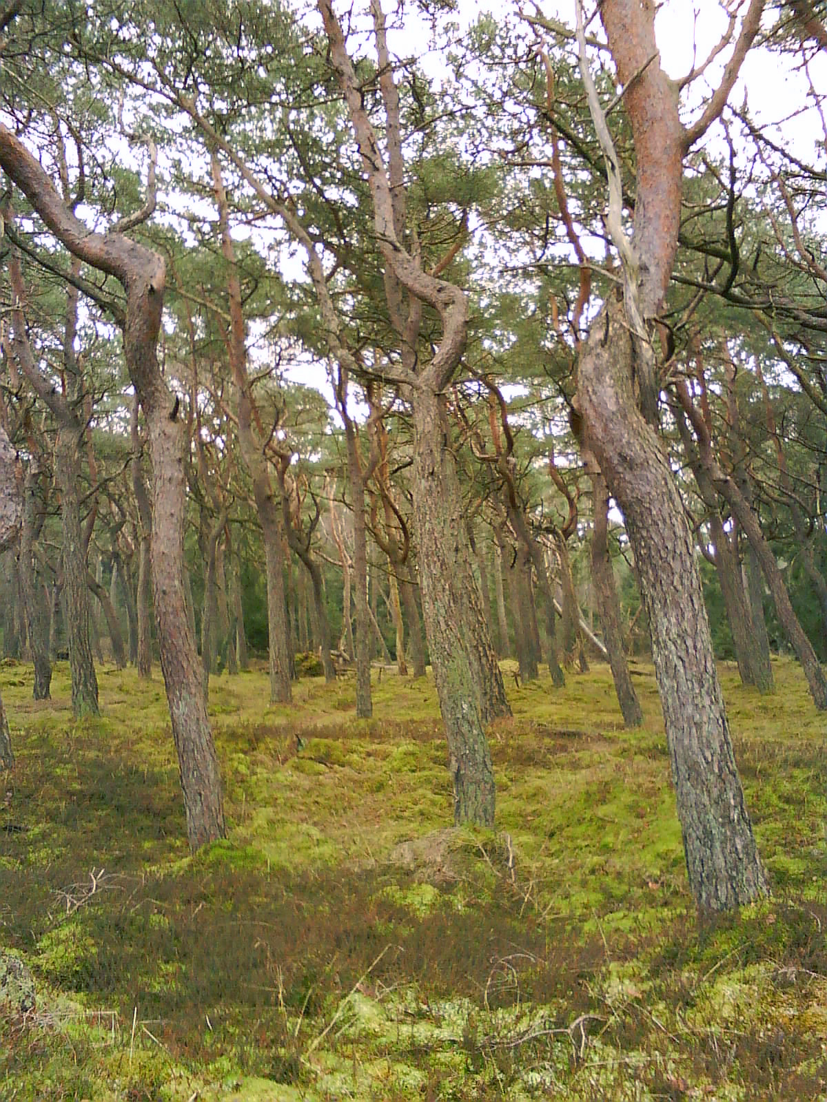 Pine trees in Tisvilde Hegn, North Zealand, Denmark